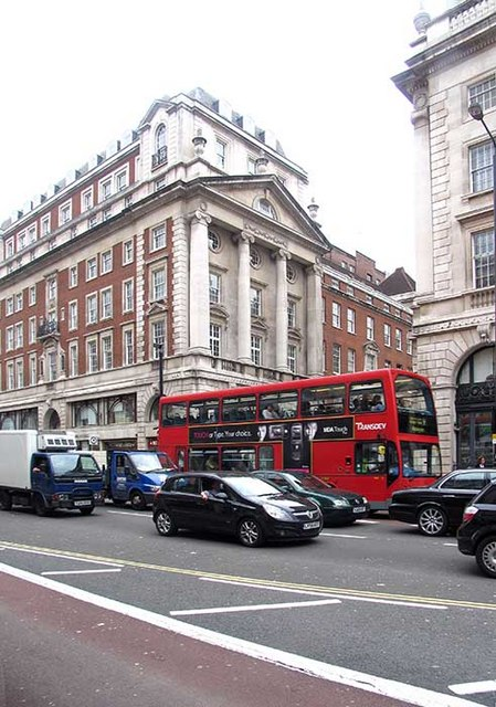 Looking across at Sackville Street